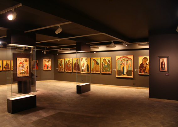 Museum of the Russian icon, Moscow.